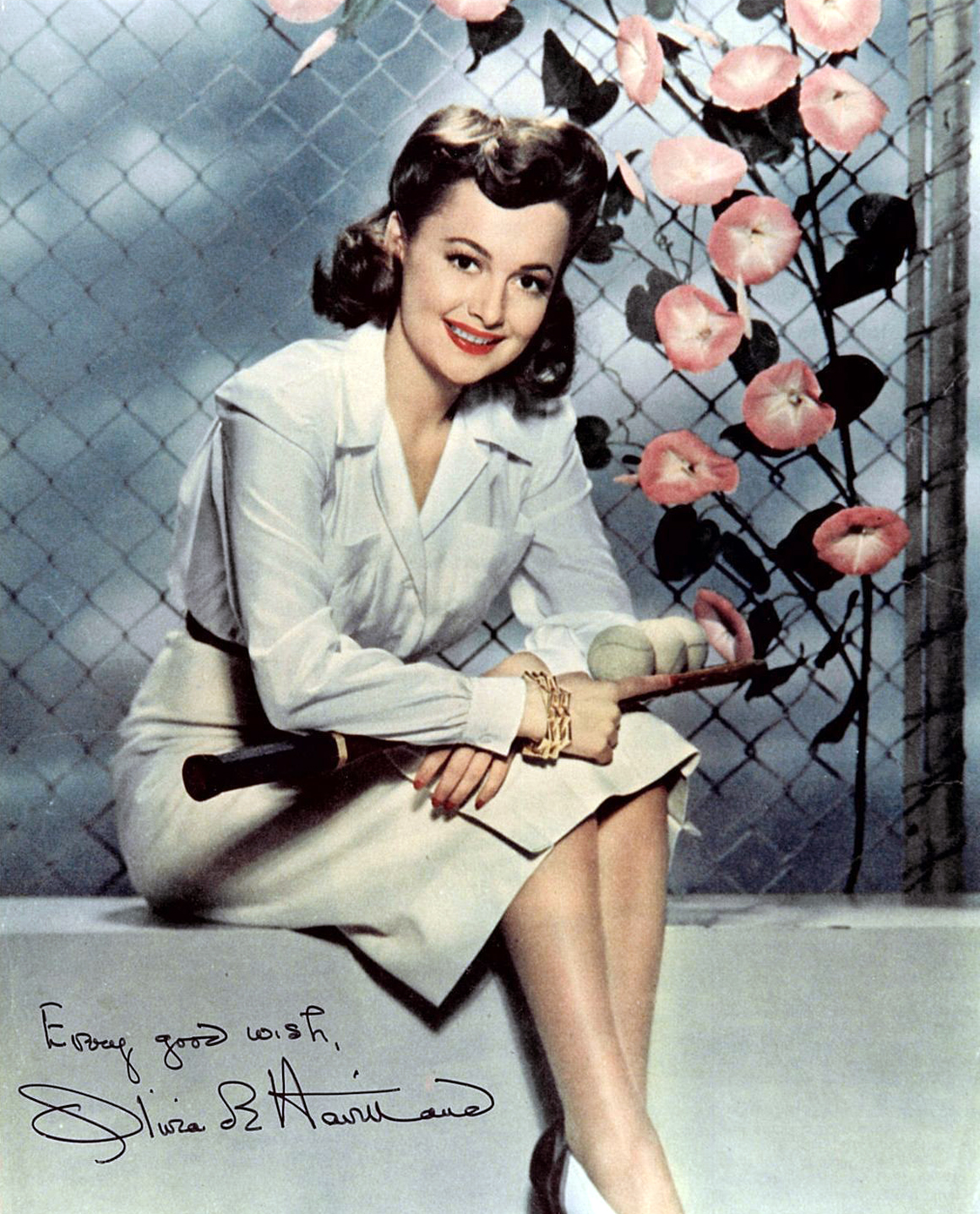 Olivia de Havilland publicity photo, 1940s